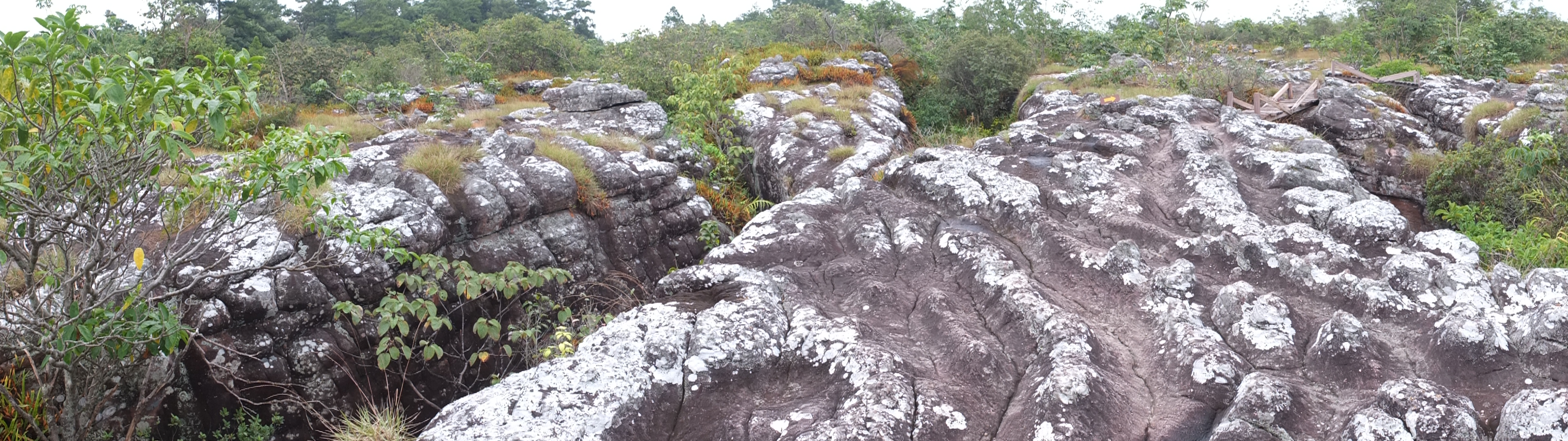 อุทยานแห่งชาติภูหินร่องกล้า